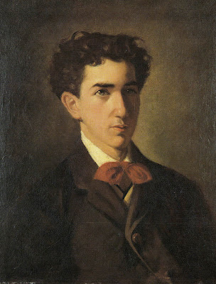 Self-portrait Mariano Fortuny y Marsal